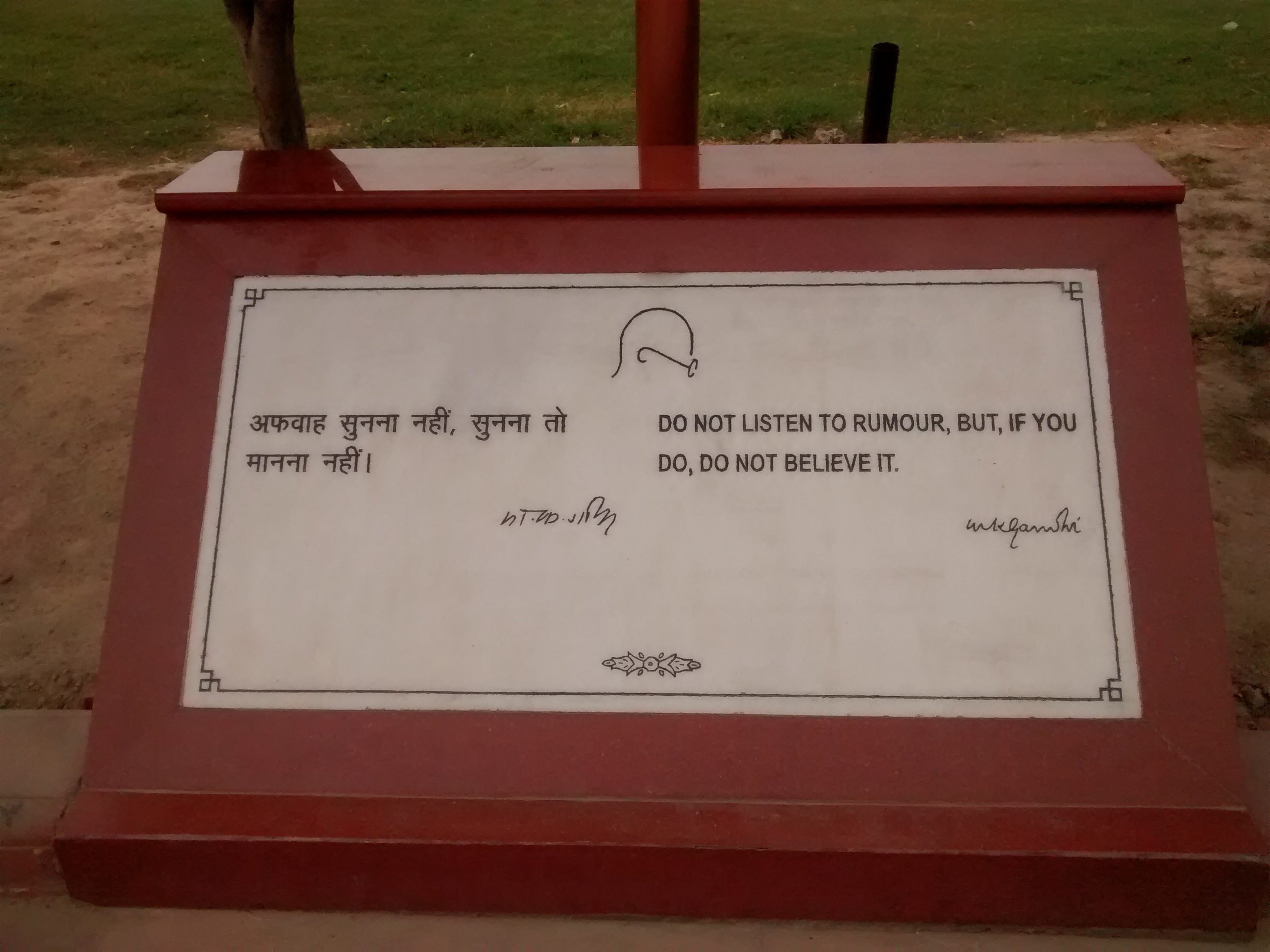 "Do not listen to rumour. If you do, do not believe it." Very relevant today where fake news is prevalent.